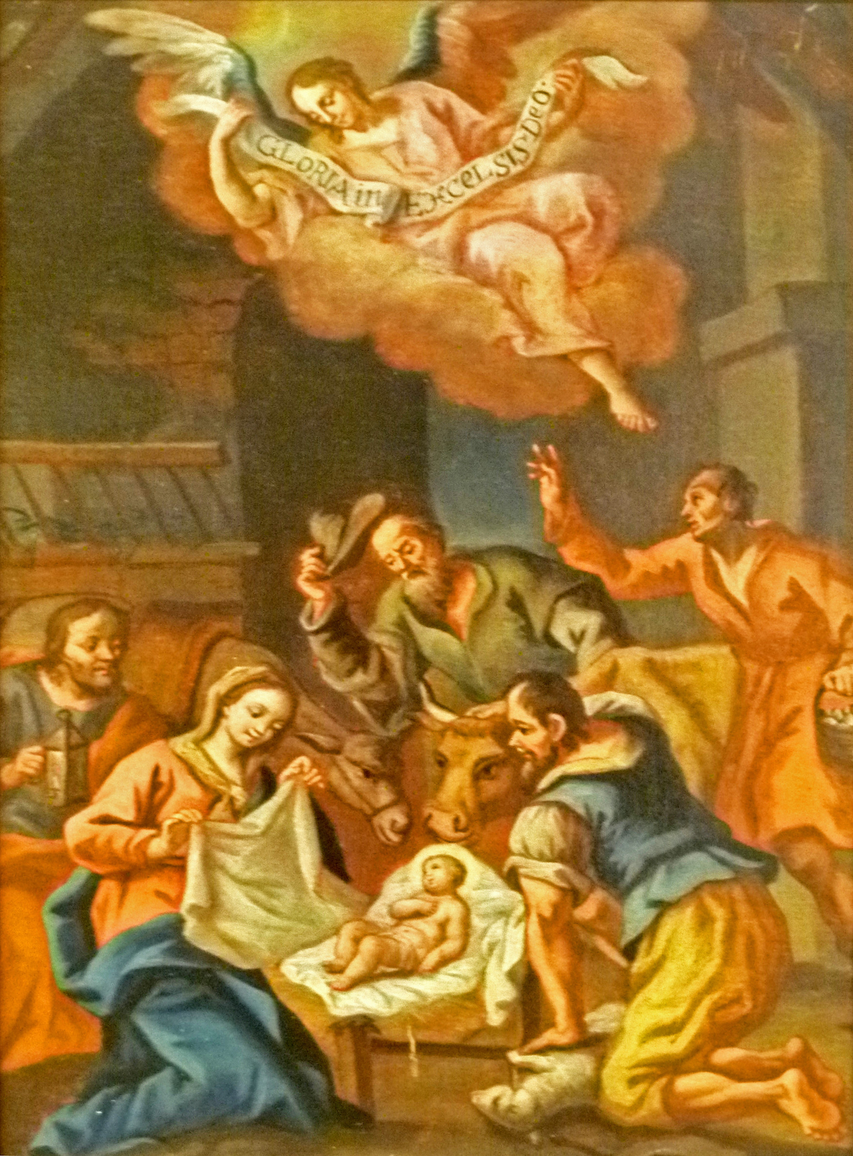 "Adoration by the shepherds", painting oil on paper (38.3 x 27.2 cm) by Anton Franz Altmutter; Augustiner museum, Rattenberg, Austria